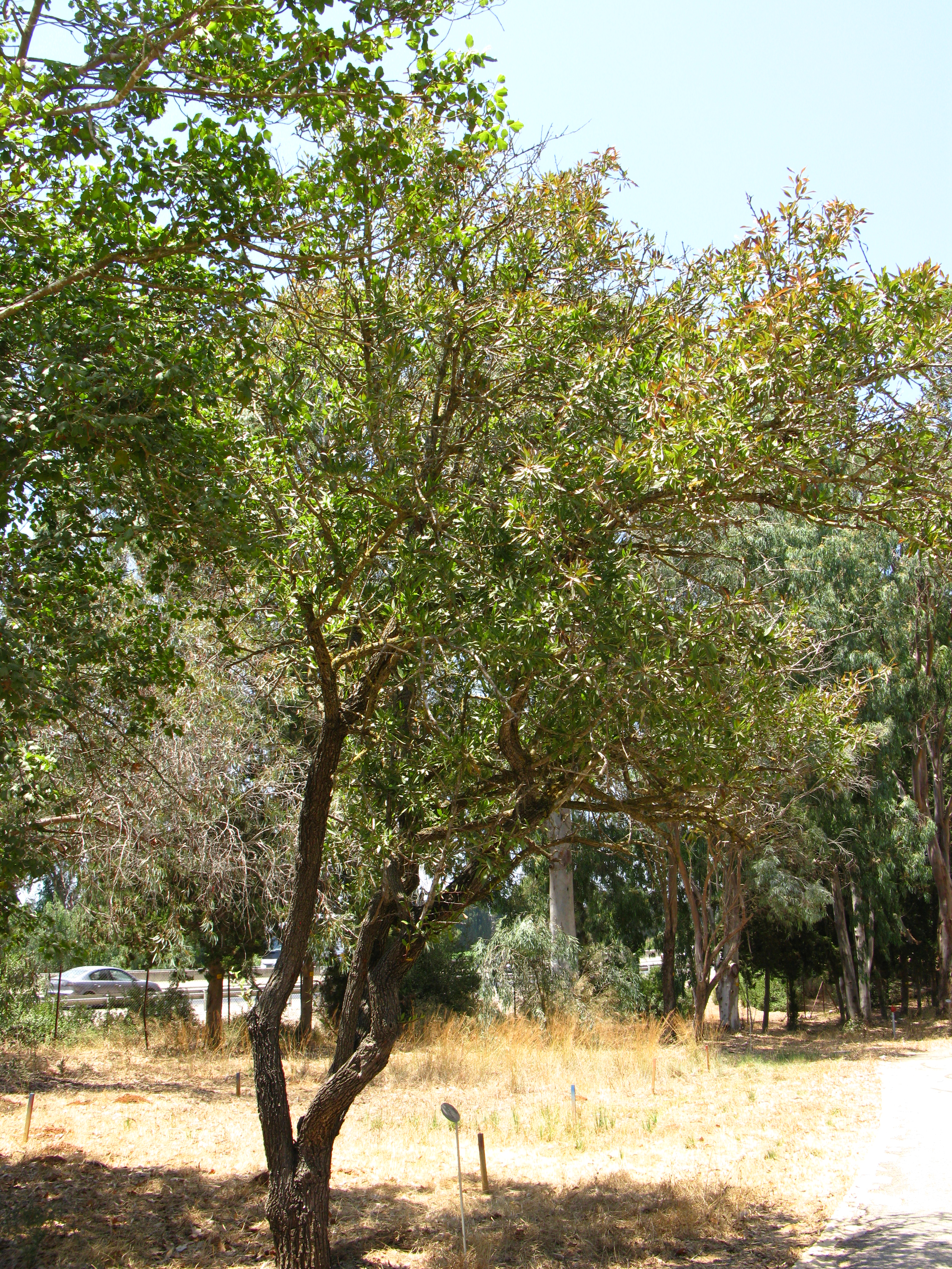 Syrian pear in IsraelLatina: Pyrus syriaca